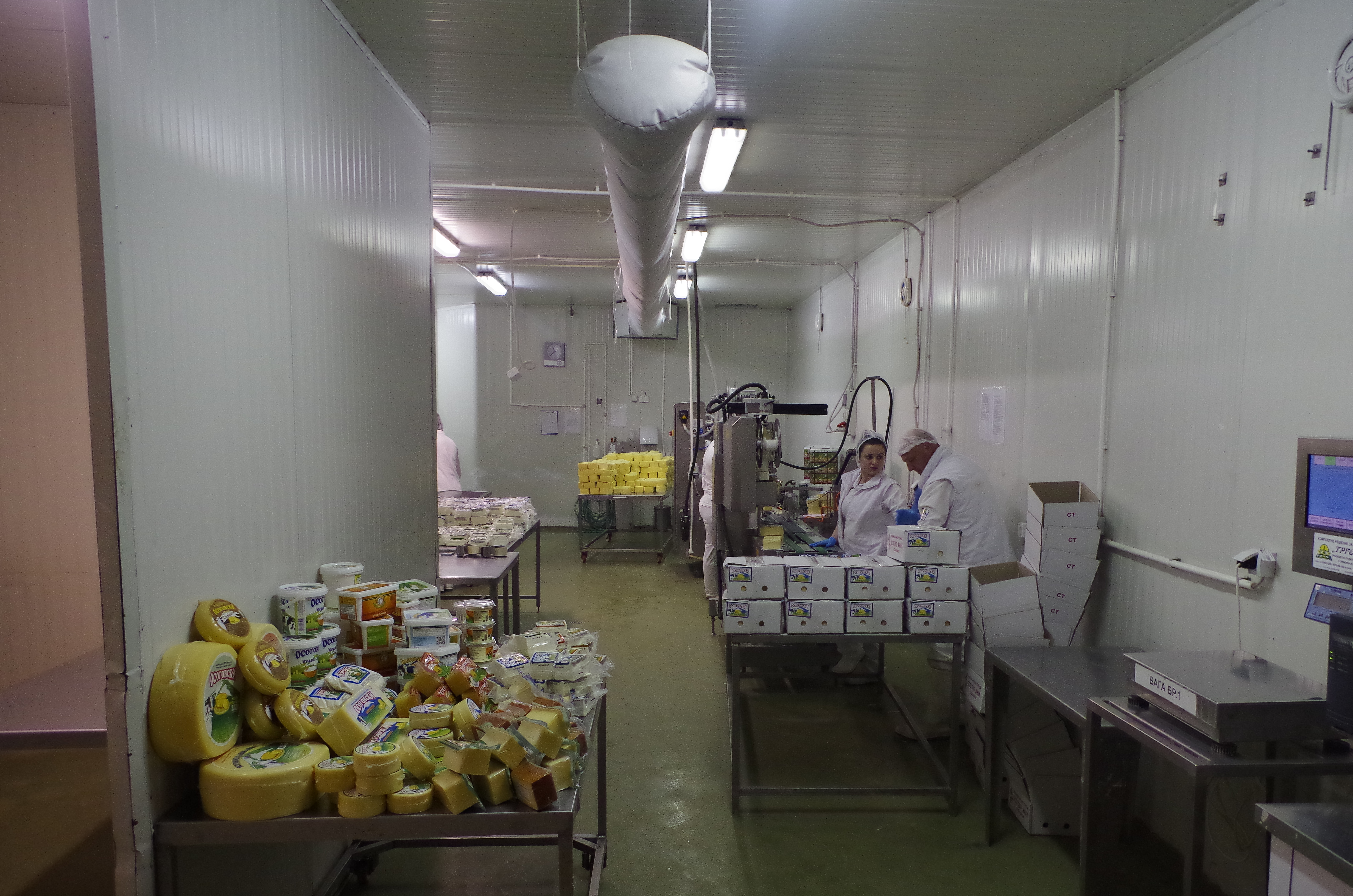 Dairy Osogovo Milk in Sokolarci, Macedonia